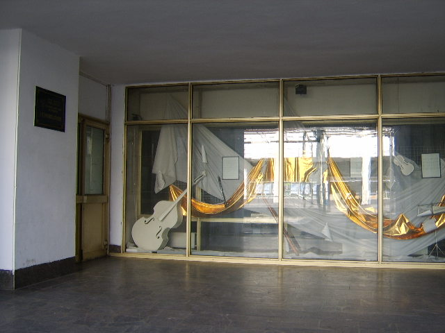 At the entrance of the Mongolian Philharmony. Photographer Gantuya